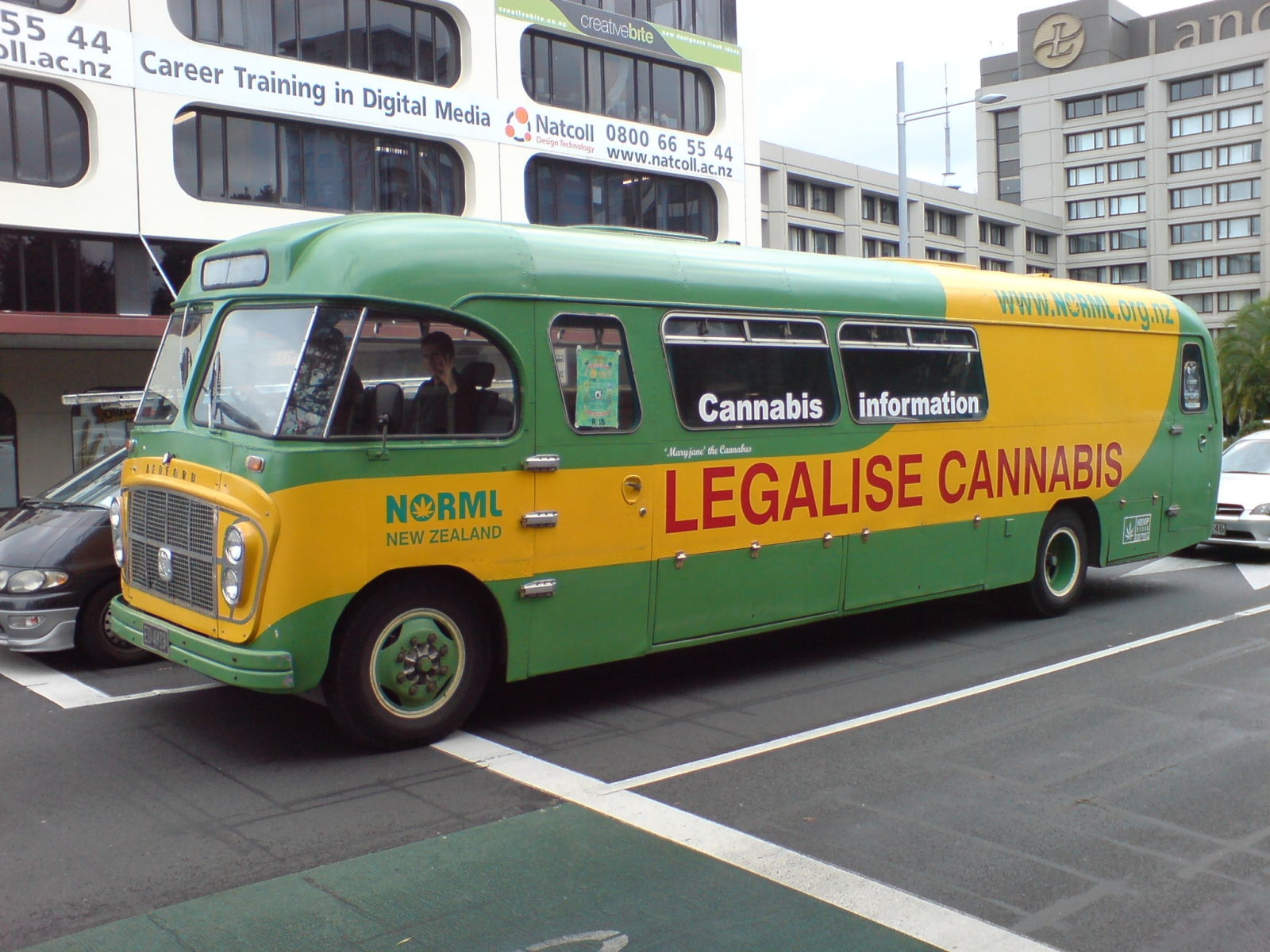 'Mary Jane the Cannabus', the vehicle of a NORML cannabis activism group, seen in Auckland, New Zealand.